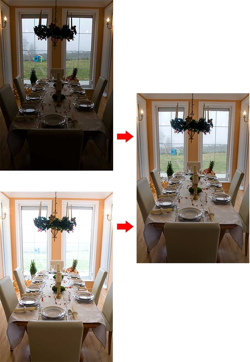 Dynamic Range Increase using the Exposure Blending Tool ExpoBlending (Enfuse)